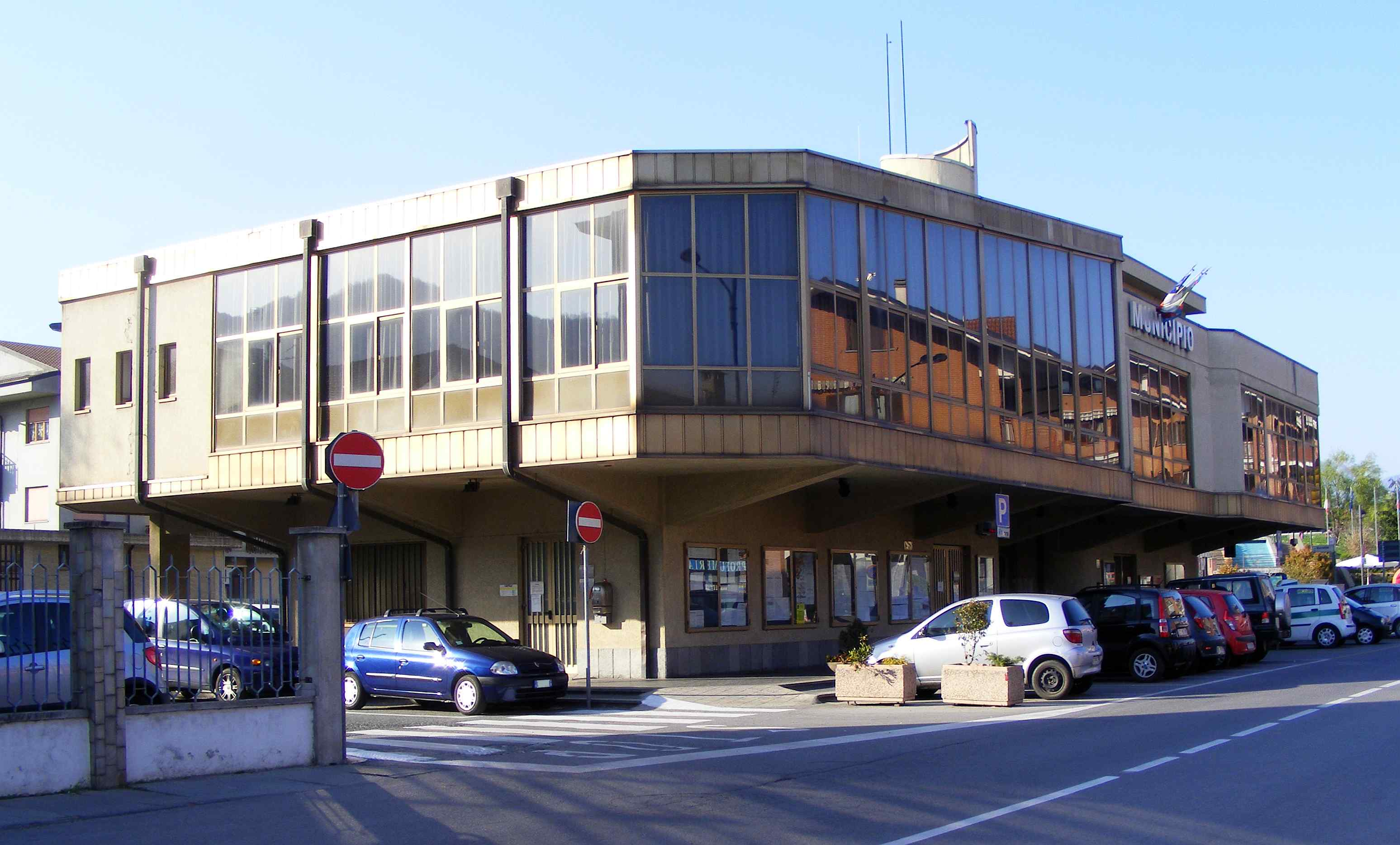 San Secondo di Pinerolo (TO, Italy): town hall